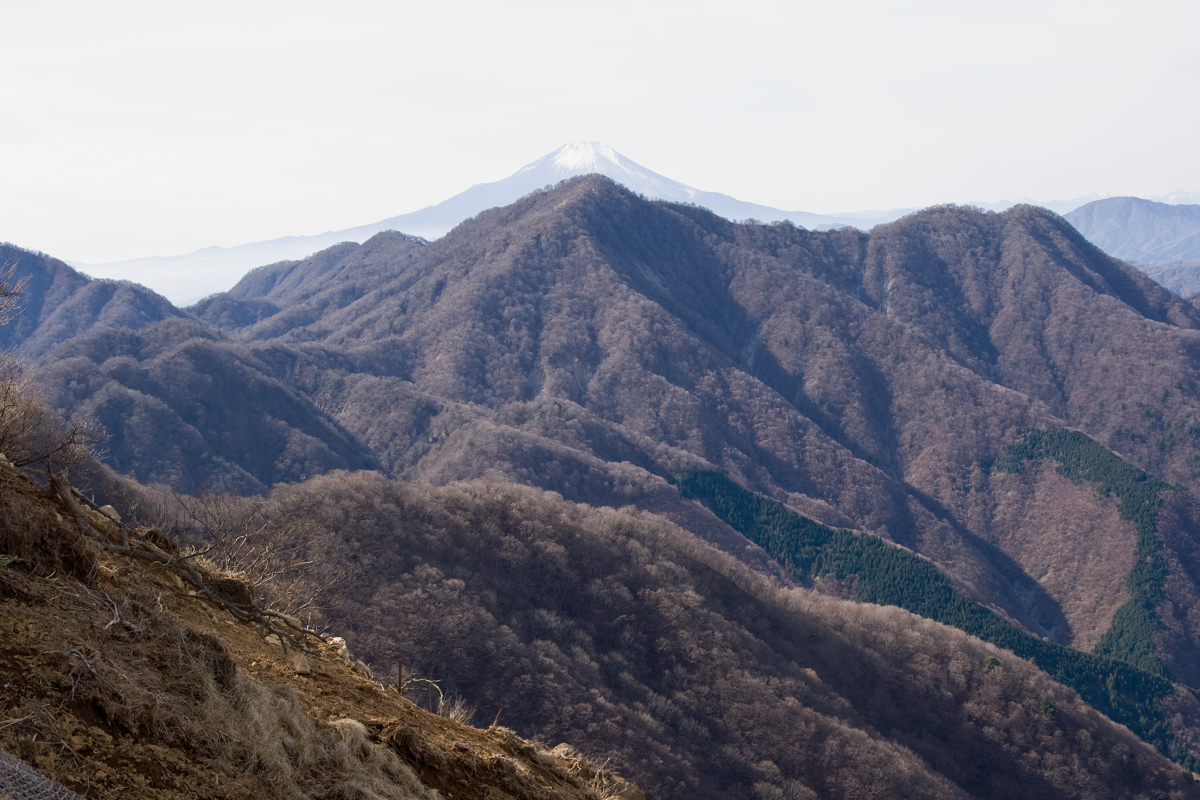 Mt.Hinokiboramaru(Hinokibora-maru, 檜洞丸, ひのきぼらまる) in Tanzawa Mountains, Kanagawa Pref., Japan.